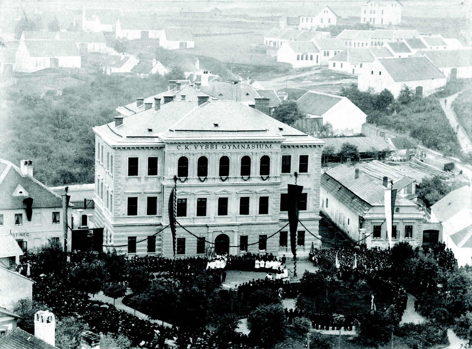 The observance of new building of Gymnázium Třebíč in Třebíč in year 1889